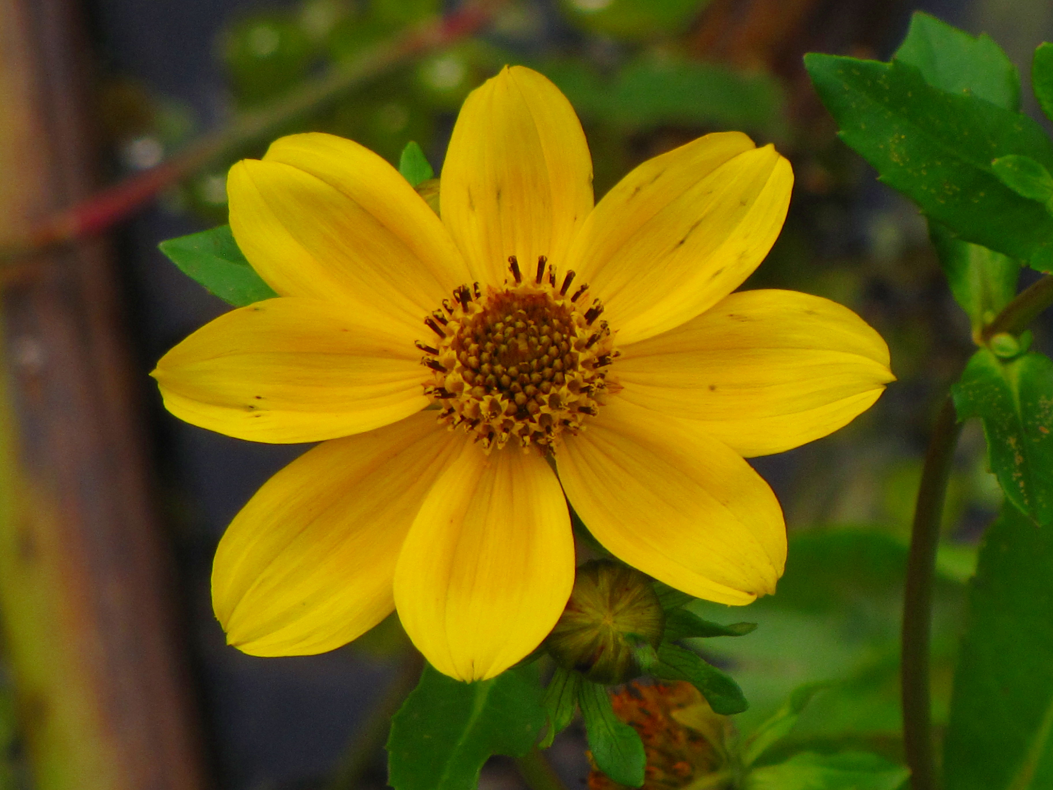 Bidens laevis Ocklawaha Restoration Area Marion County, Florida